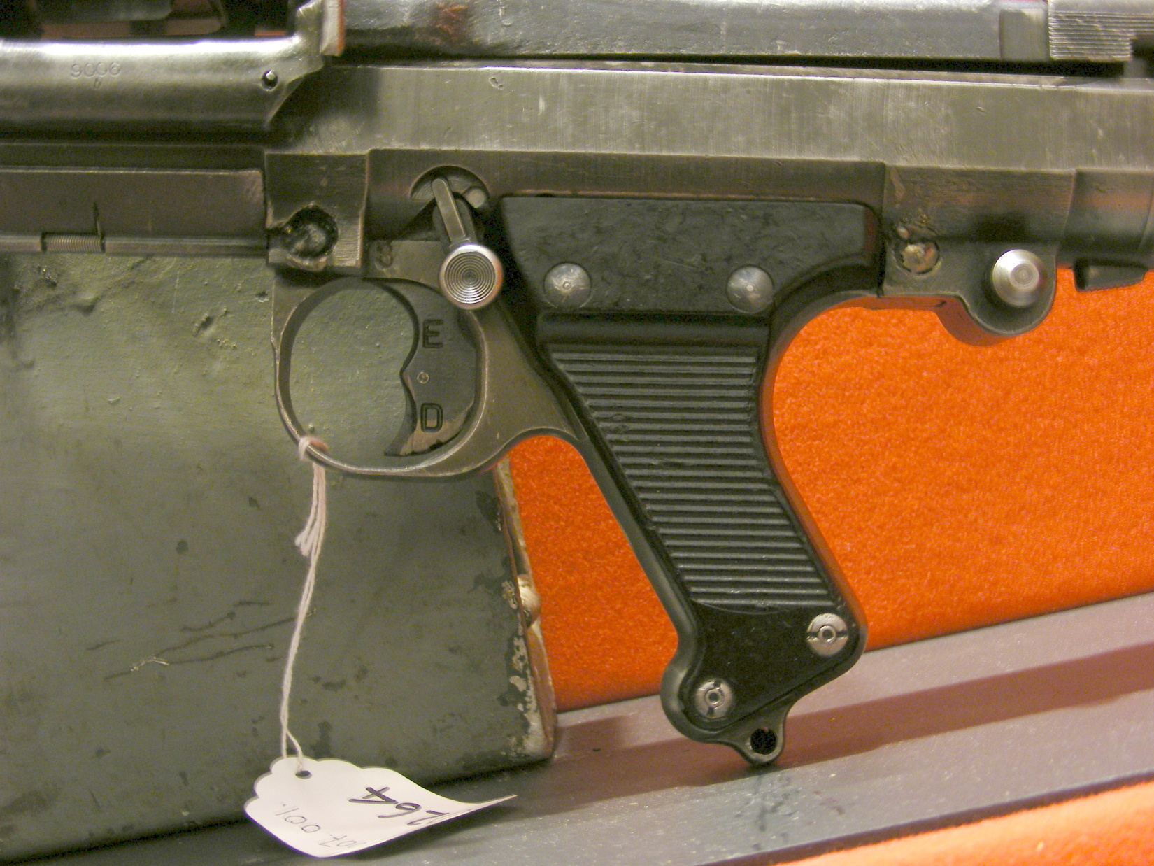 Trigger of German MG 34 machine gun, displayed in Royal Canadian Regiment Museum in London, Ontario. Photo taken on April 27, 2008. Source: Photo by me, User:Balcer.